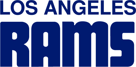 Wordmark for the Los Angeles Rams